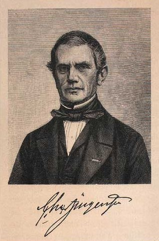 Christian Jürgensen (1805-1860), Danish mathematician